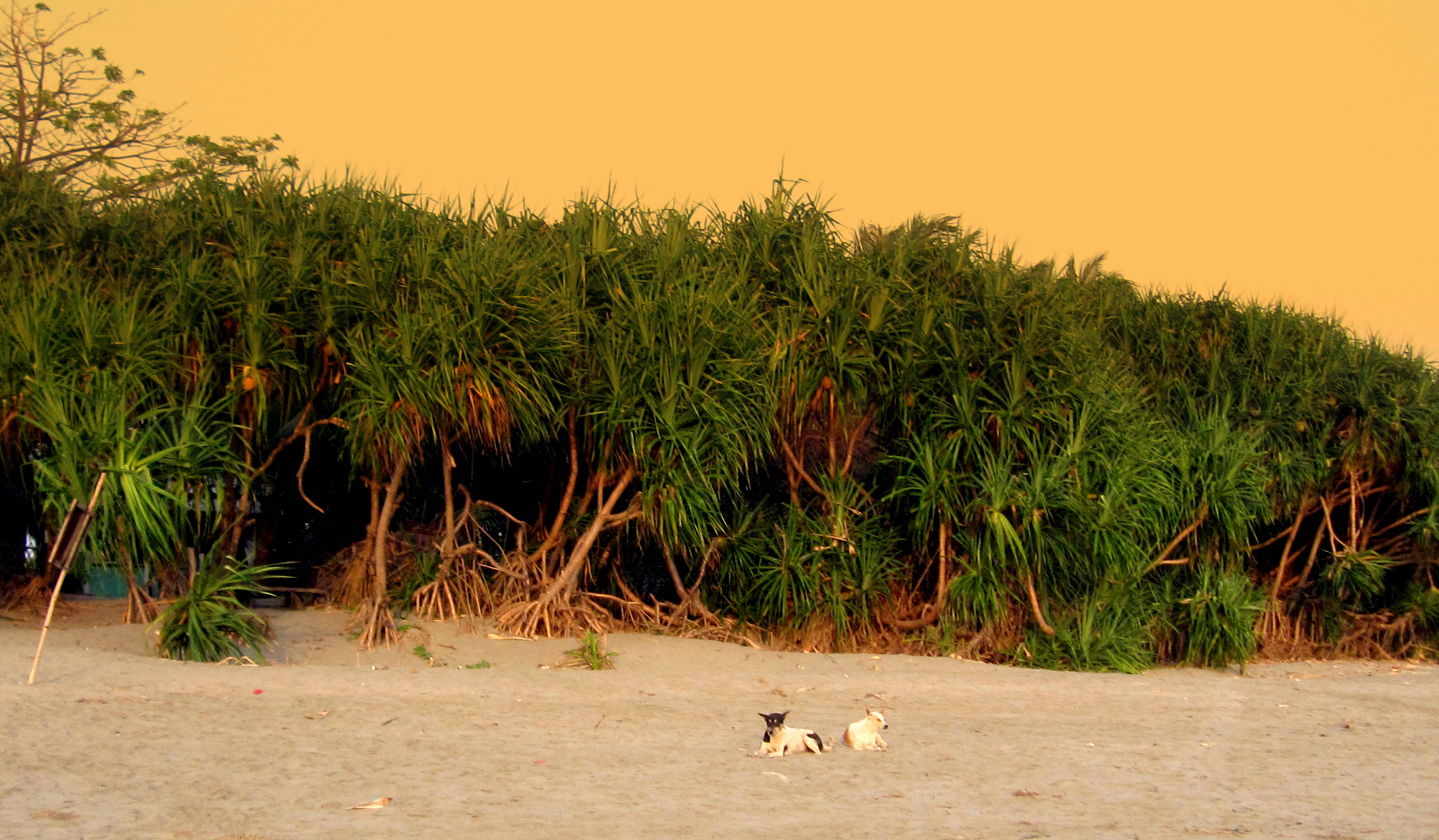 Keya Tree (Pandanus fascicularis)St. Martin's Island